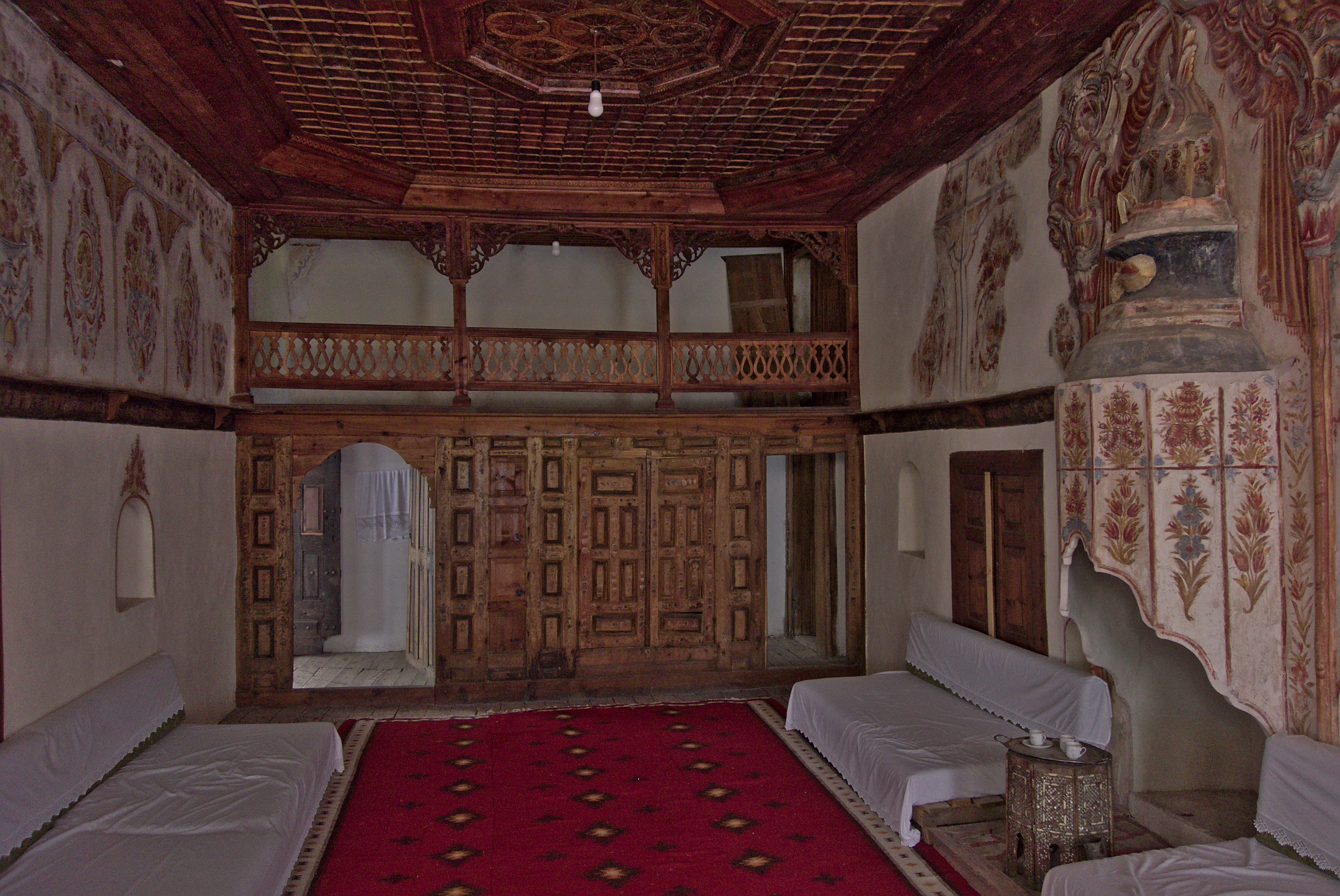 Interior of the Zekate House